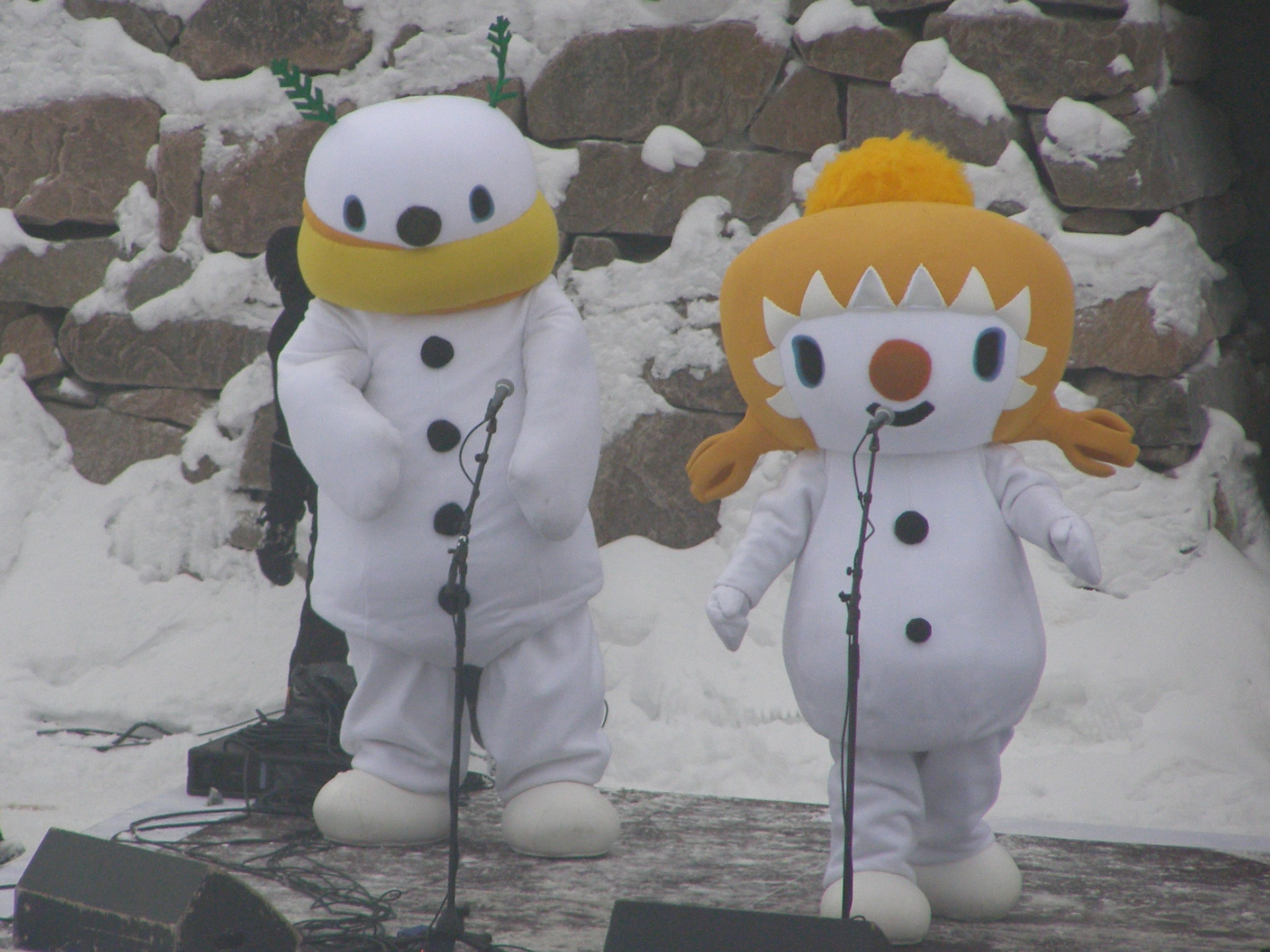 Official mascots of the FIS Nordic World Ski Championships 2011 in Oslo.